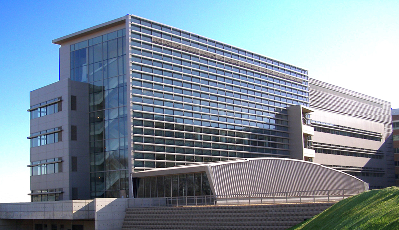 FDA Laboratory Building 62 (Engineering and Physics) houses the Center for Devices and Radiological Health. The FDA campus is located at 10903 New Hampshire Ave., Silver Spring, MD 20993.